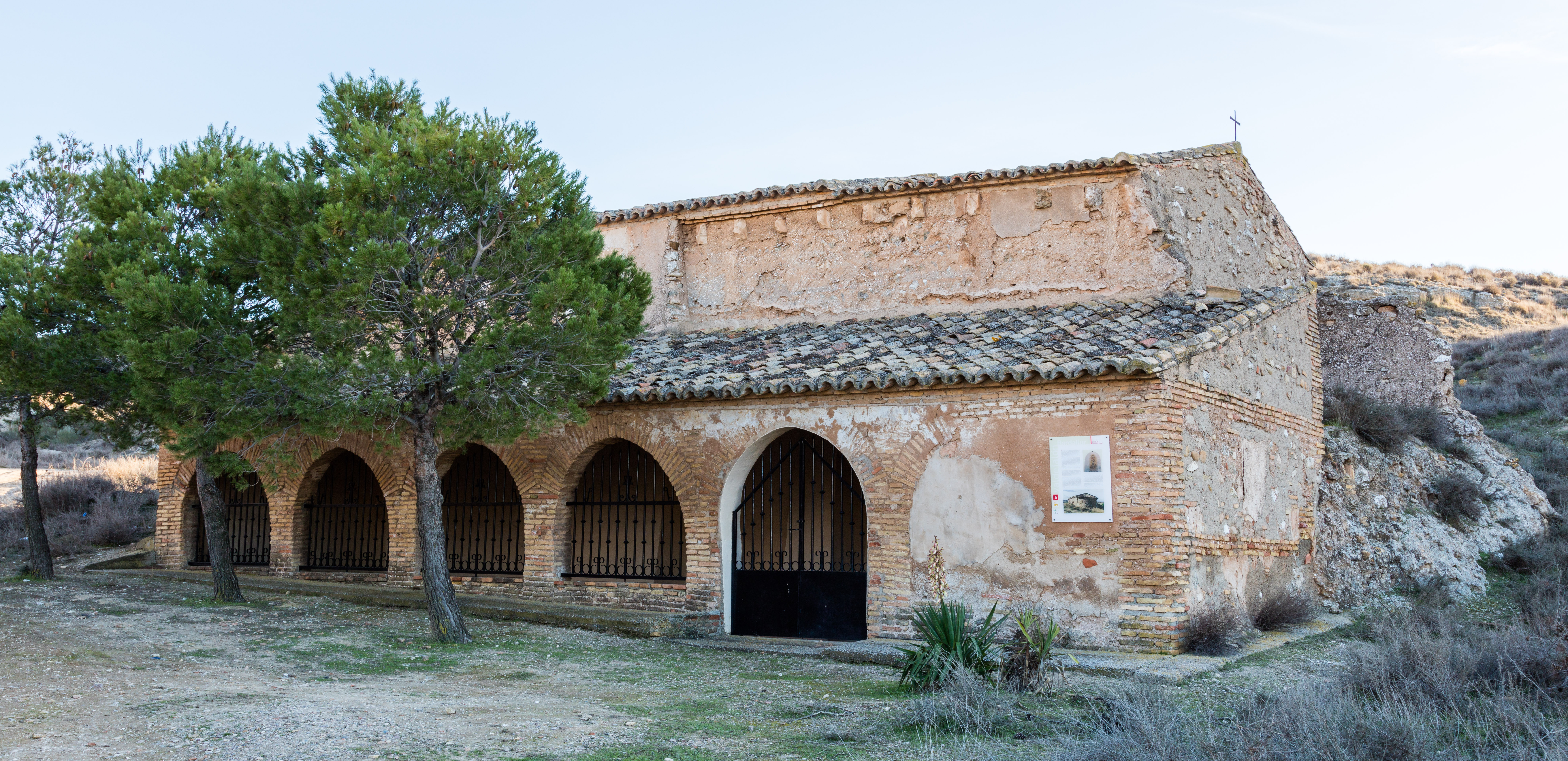 Hermitage of San Bartolomé, Bardallur, Zaragoza, Spain